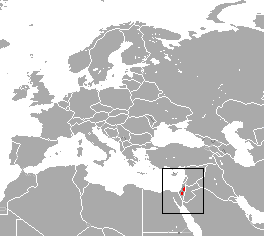 Negev Shrew (Crocidura ramona) range